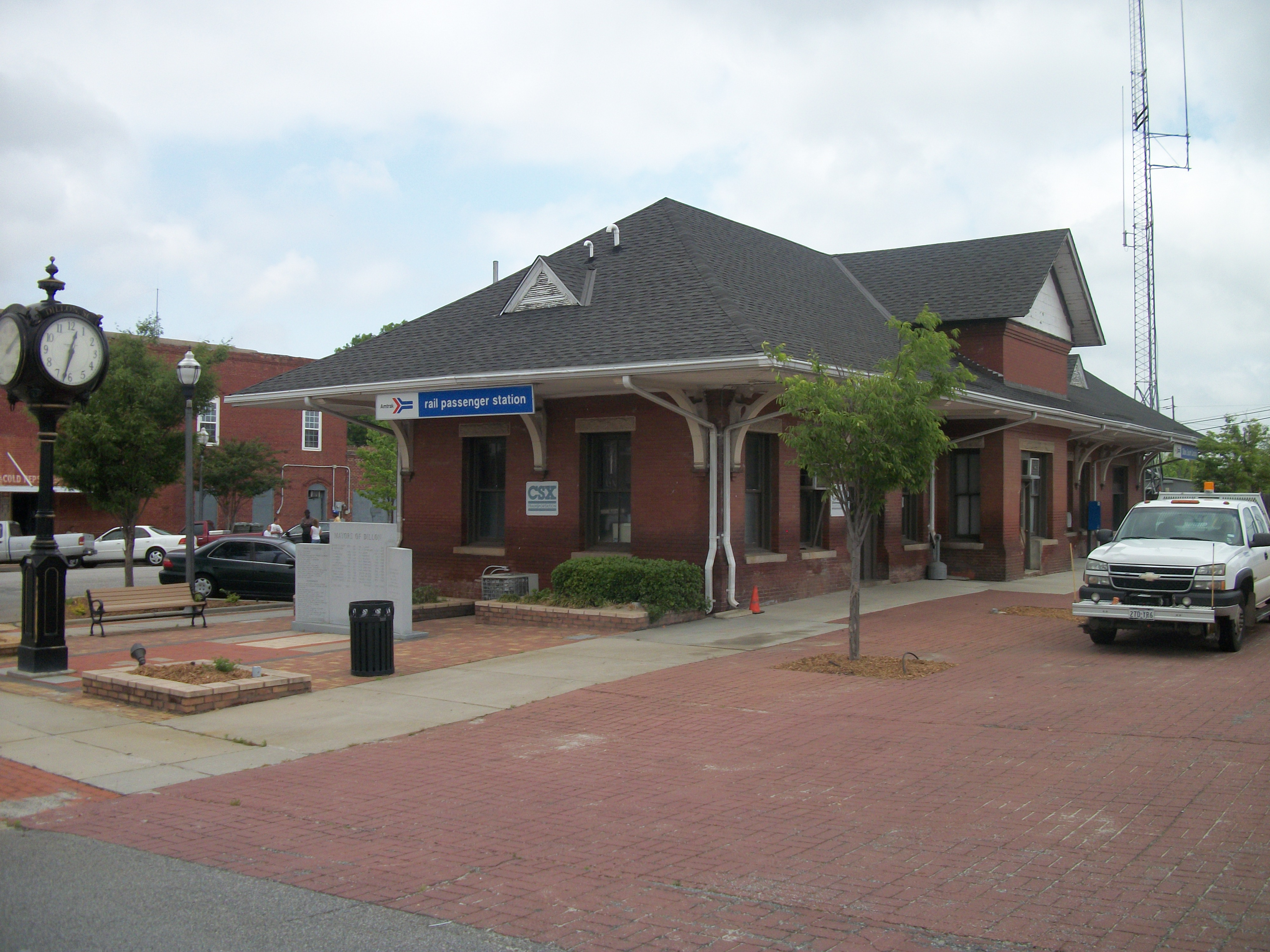 Somewhat improved mage of the historic Dillon (Amtrak station) on South Carolina Route 34(West Main Street) in Dillon, South Carolina, which includes one of the CSX Maitenance trucks, in this case a 2002-2007 Chevy Silverado. CSX uses this as a base of operations, and they planned to move somewhere up the tracks towards the end of 2009. This pic, however was taken in 2011, which means they have yet to move to their new location.